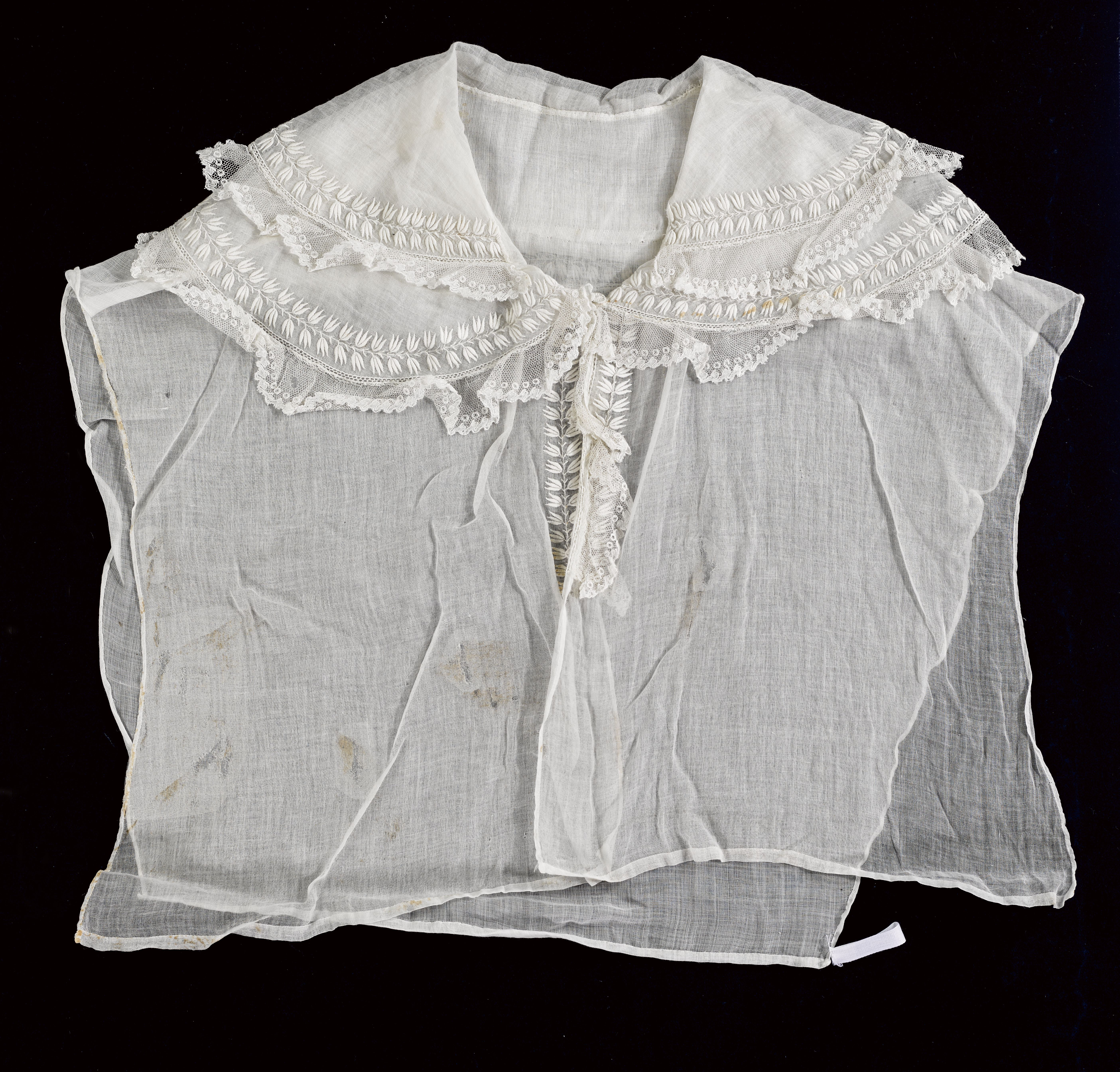 Costume Accessory